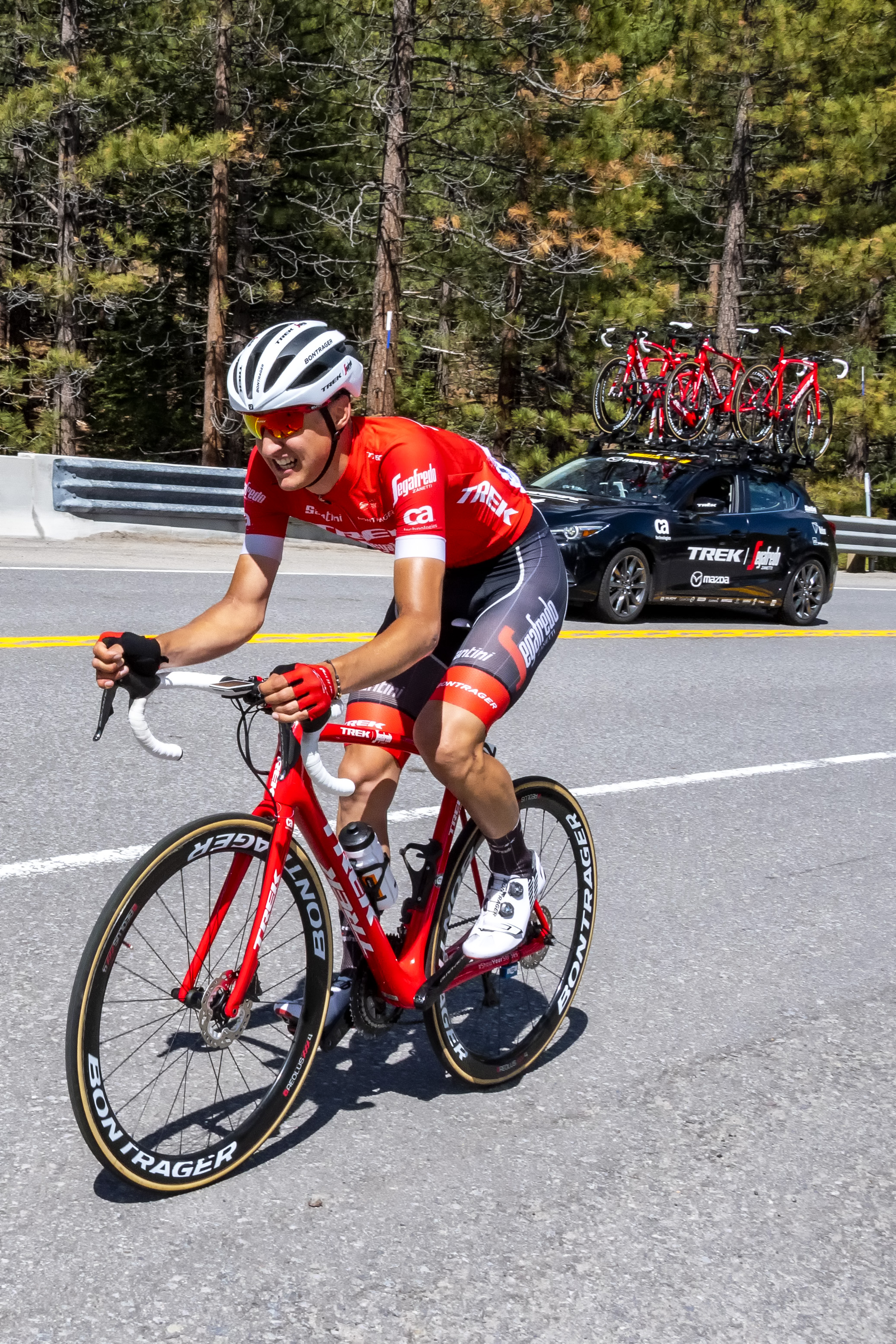 Amgen Tour of California 2018 Stage 6 from Folsom to South Lake Tahoe UCI World Tour